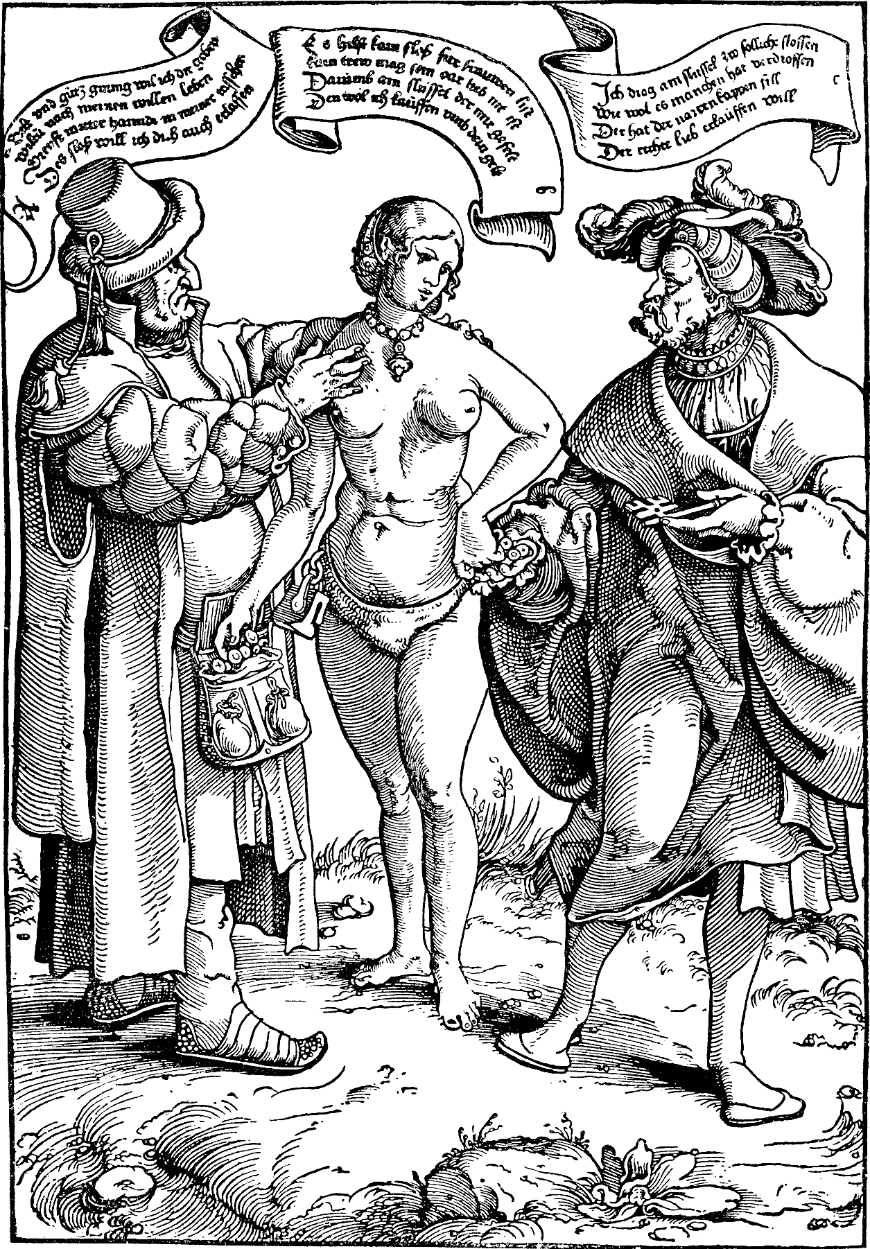 A 16th-century (ca. 1540) German satirical print whose general theme is the uselessness of chastity belts in ensuring the faithfulness of beautiful young wives married to old ugly husbands. The young wife is dipping into the bag of money which her old husband is offering to give her (to encourage her to remain placidly in the chastity belt he has locked on her), but she intends to use it to buy her freedom to enjoy her handsome lover (who is bringing her a key). For another closely-related 16th century woodcut (with different artwork, and the poem spelled according to a different German dialect, but basically the same idea), see Image:16thc-German-woodcut-Chastity-belt.jpg . Here's the transcript of the text in the woodcut which is provided in Eric John Dingwall's 1931 book The Girdle of Chastity): The old husband: ("a") Gelt und gütz gnung wil ich dir geben Wiltü nach meinen willen leben Greift mitter hannd in meiner tasschen Des sloss will ich dich auch erlassen. His young wife: ("b") Es hilft kain shloß für frauwen list kain trew mag sein dar lieb nit ist Darumb ain slüssel, der mir gefelt Den wöl ich kauffen umb dein gelt. Her lover: ("c") Ich drag ein Slüssel zw solliche slossen Wie wol es manchen hat verdrossen Der hat der narren kappen fill Der rechte lieb erkäuffen will. Here's an attempted rendering of this text into modern